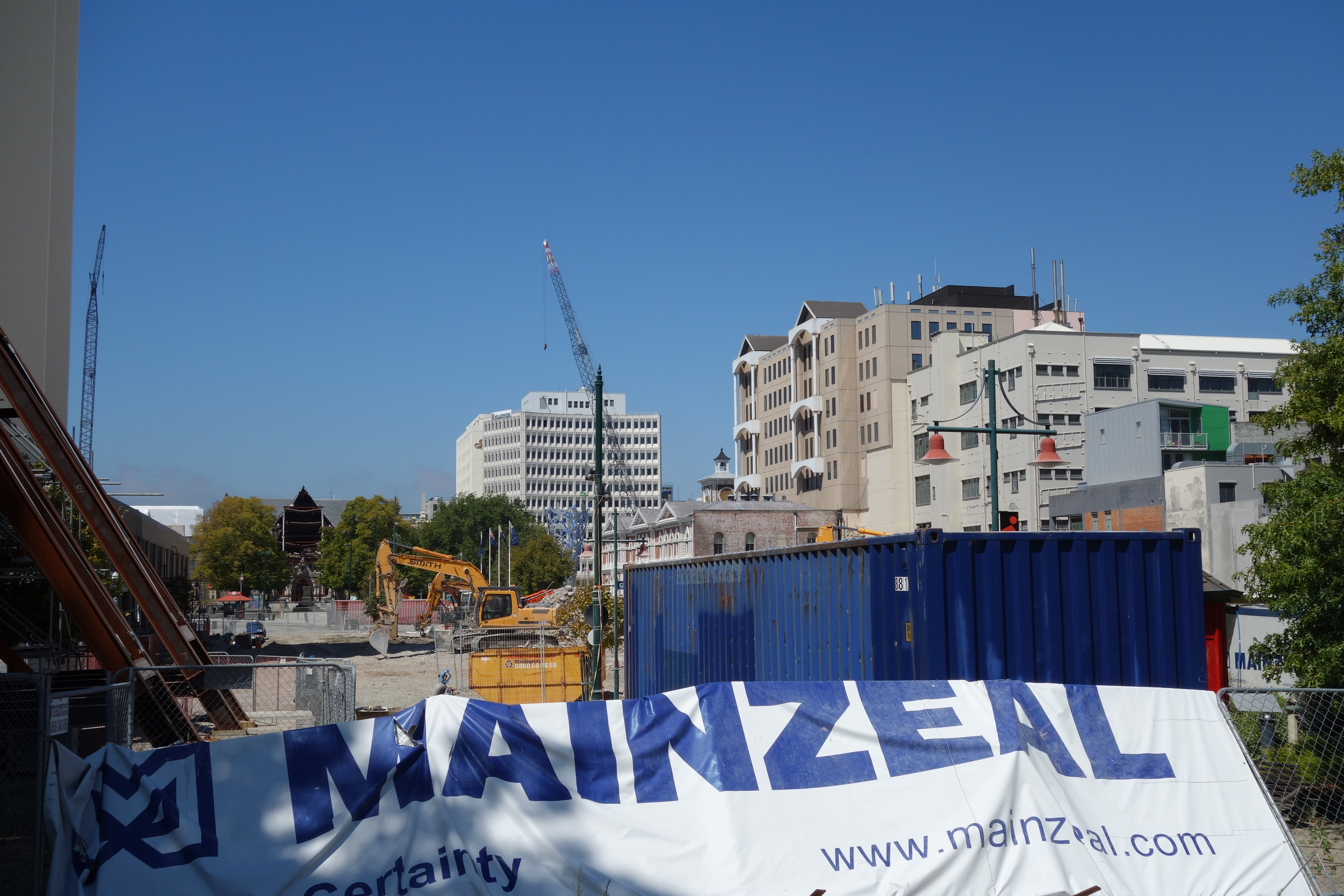 Clarendon Tower demolition by Mainzeal almost finished.